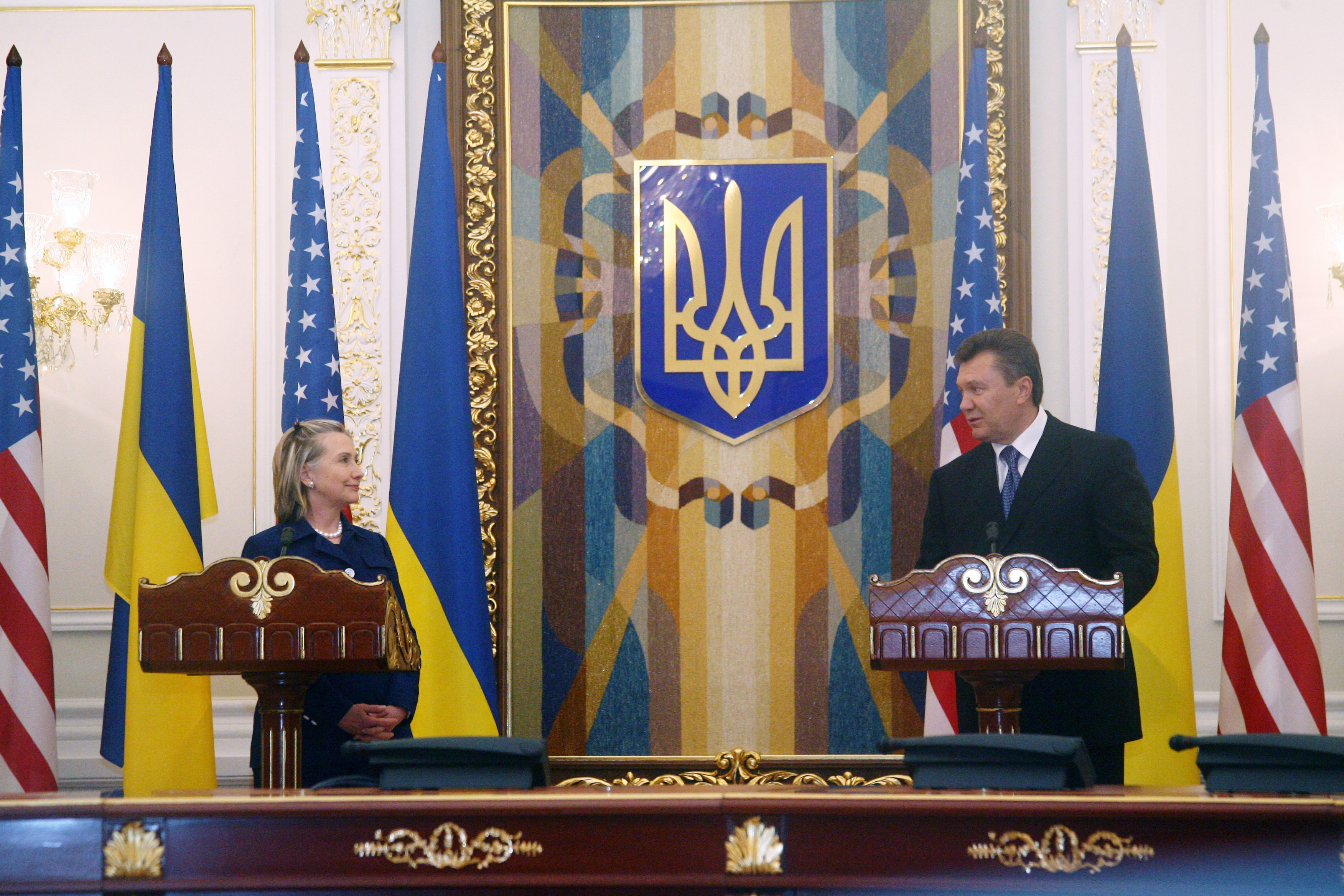 U.S. Secretary of State Hillary Rodham Clinton participates in a joint press conference with Ukrainian President Viktor Yanukovych in Kyiv, Ukraine, on July 2, 2010.